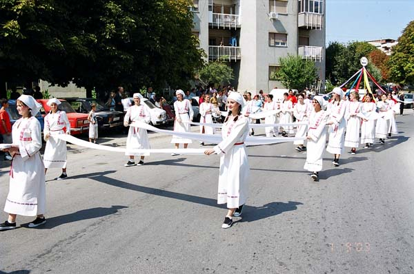 Карневалското дефиле